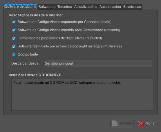 Window screenshot on Ubuntu about the Software Fonts (Galician).